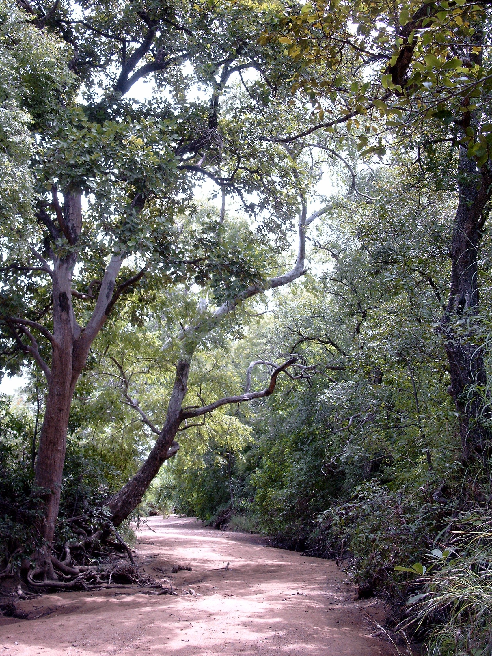 Temporary watercourse in Pama reserve, Burkina Faso.